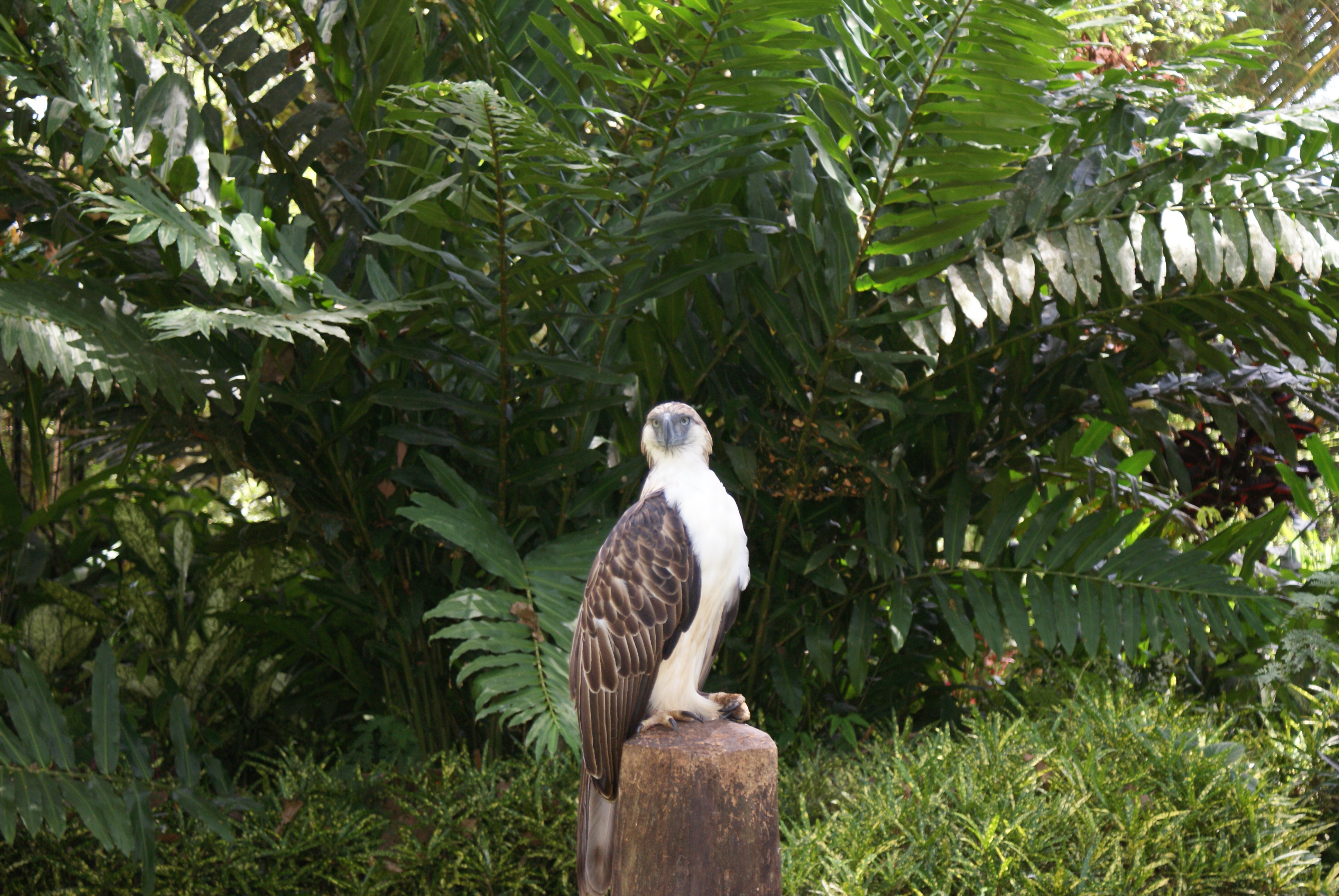 Captive Pithecophaga jefferyi, Philippine Eagle Center, Malagos, Calinan Davao City